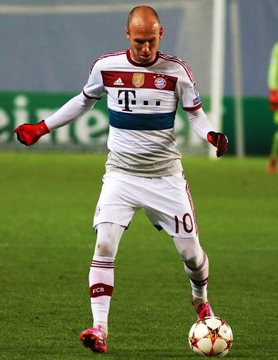 Arjen Robben